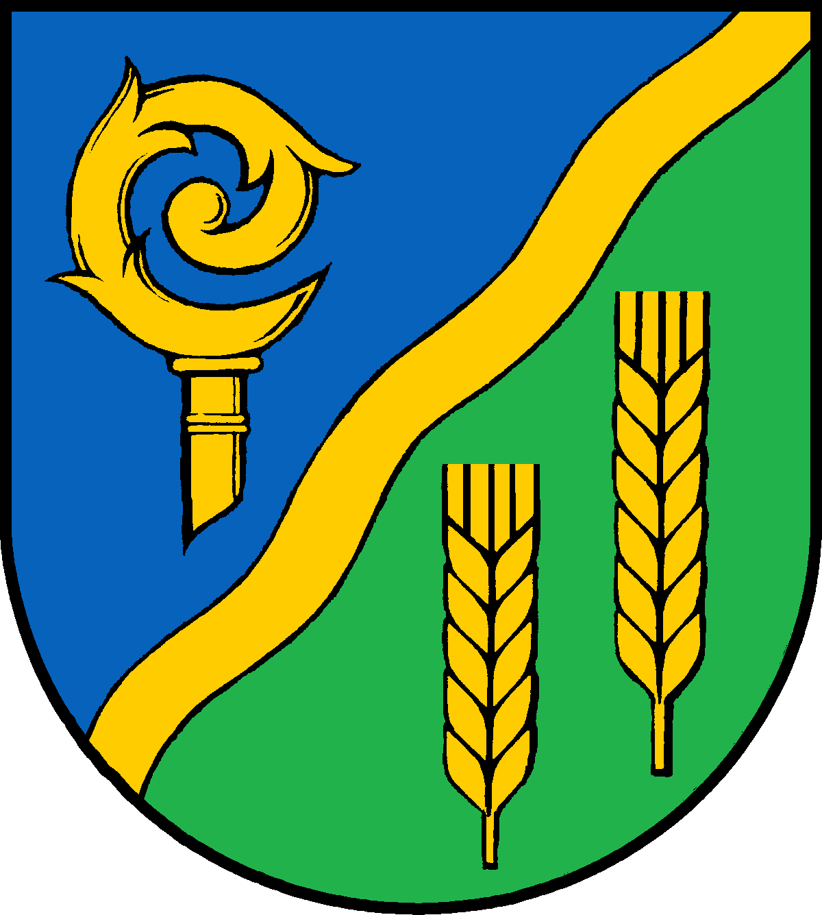 Coat of arms of the municipality Prasdorf in Schleswig-Holstein, Germany.